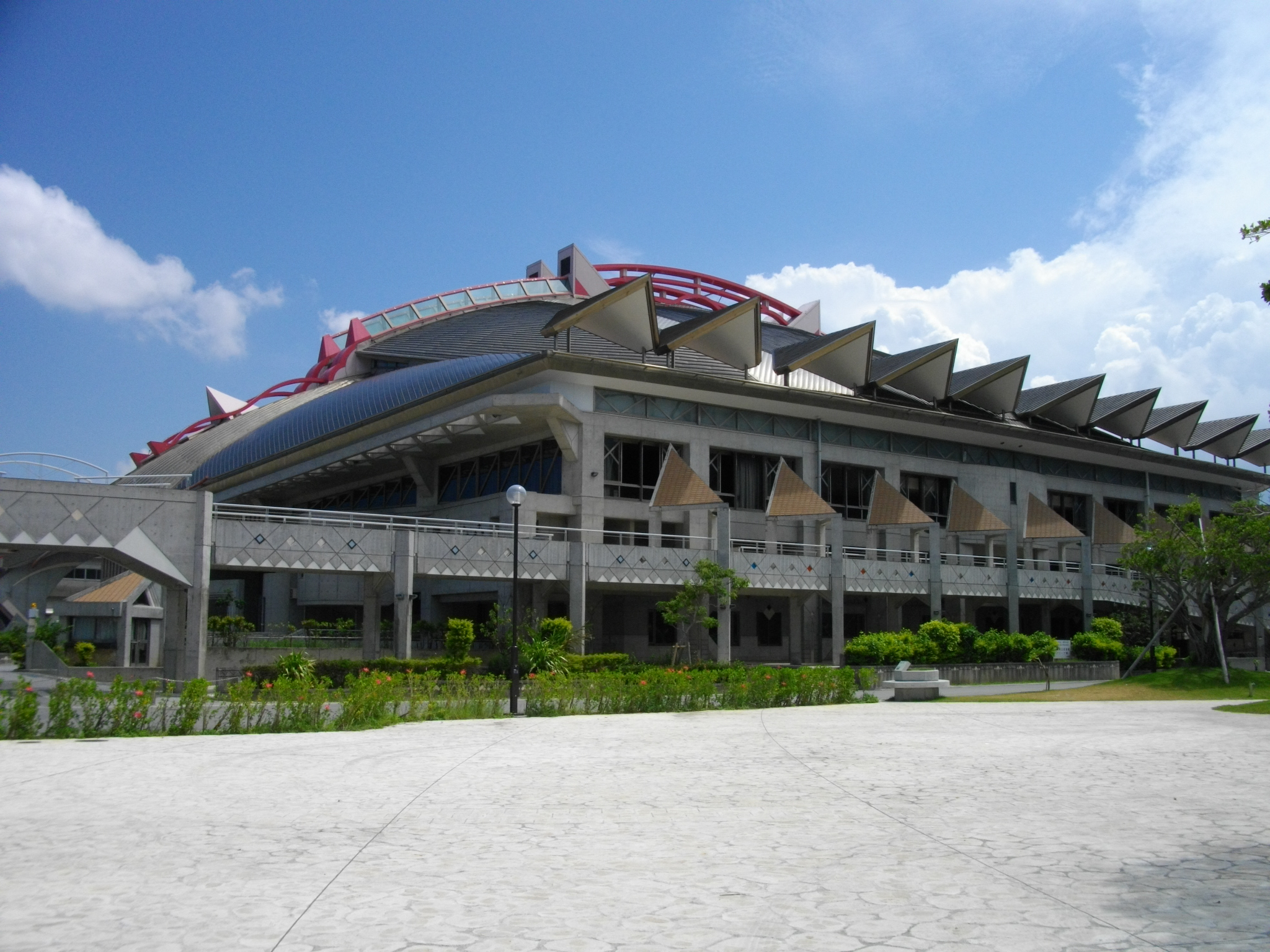 Okinawa Prefectural Budokan Arena Building